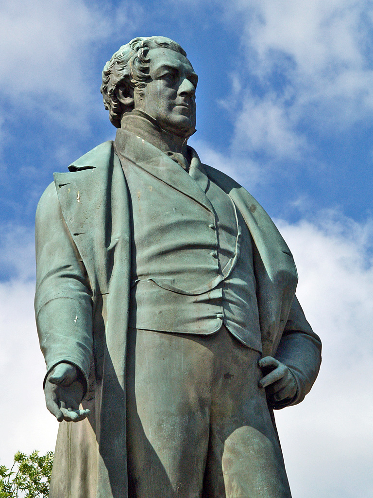 Sir Robert Peel statue (designed by Edward Hodges Baily) in Market Place, Bury, Greater Manchester, England.